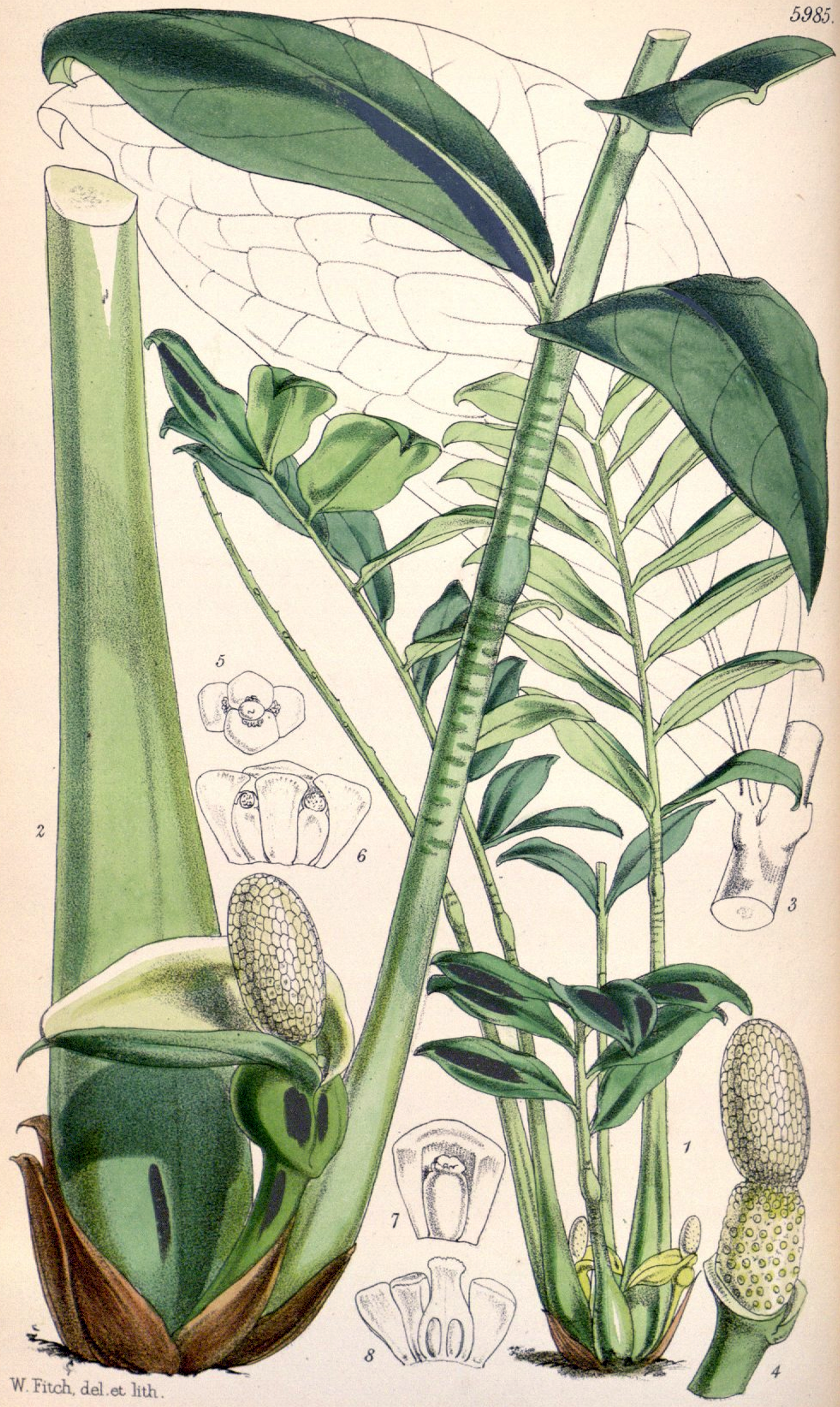 Zamioculcas zamiifolia